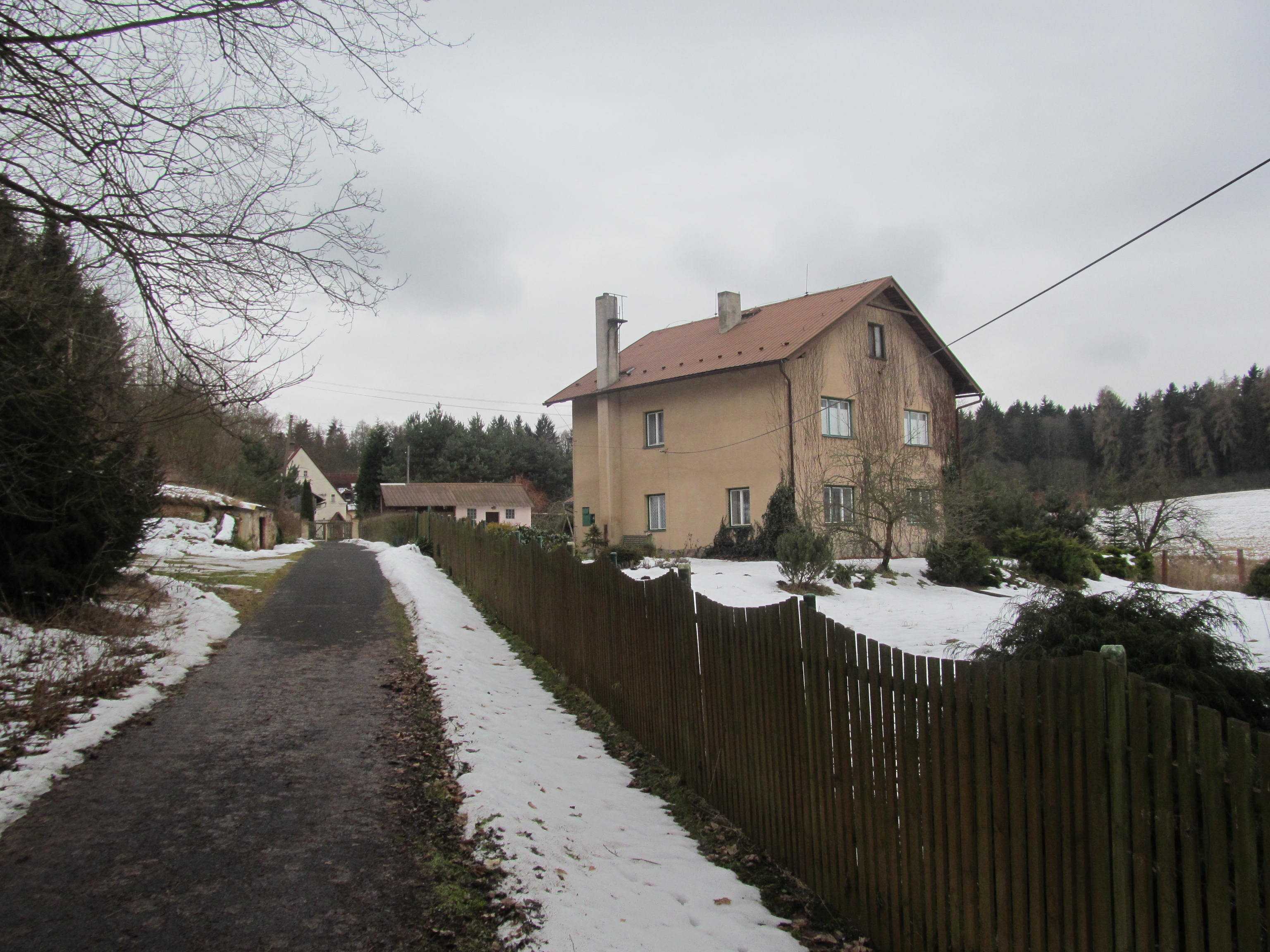 House No 62 in Nedvídkov